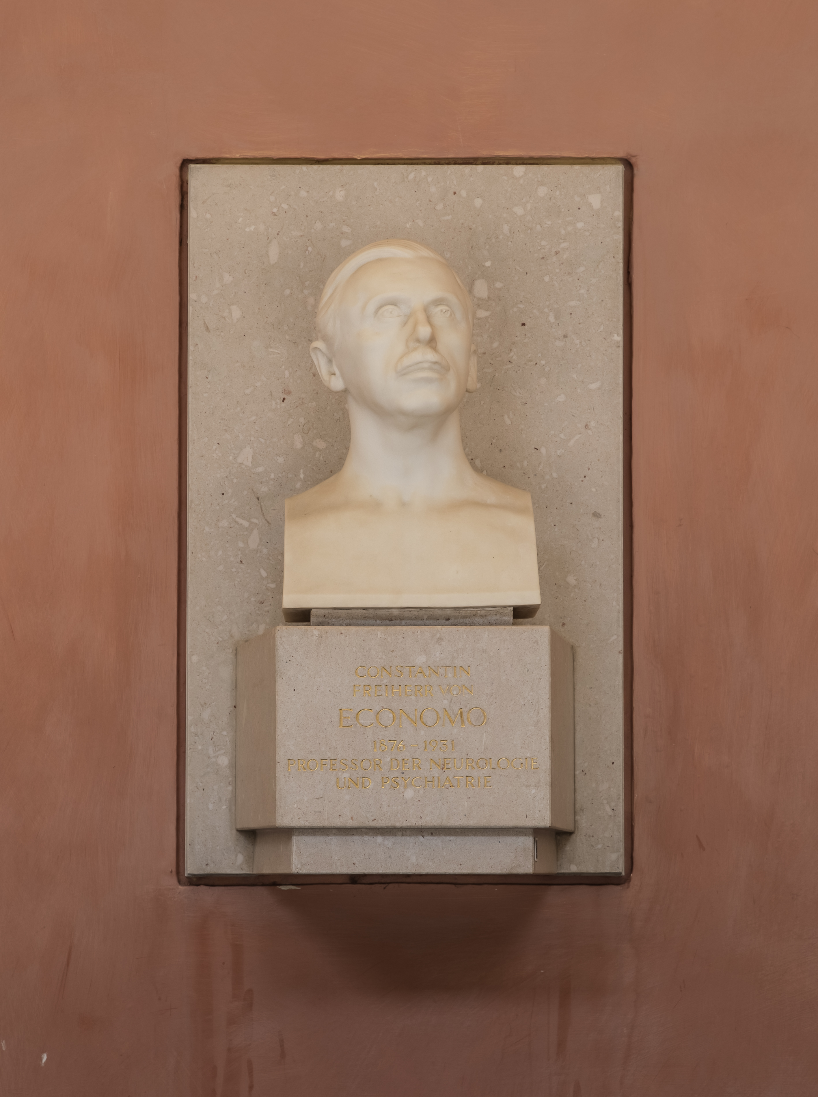 Constantin von Economo (1865-1935), bust (marble) in the Arkadenhof of the University of Vienna, (Maisel# 139). Artist: Max Kremser, unveiled 1966